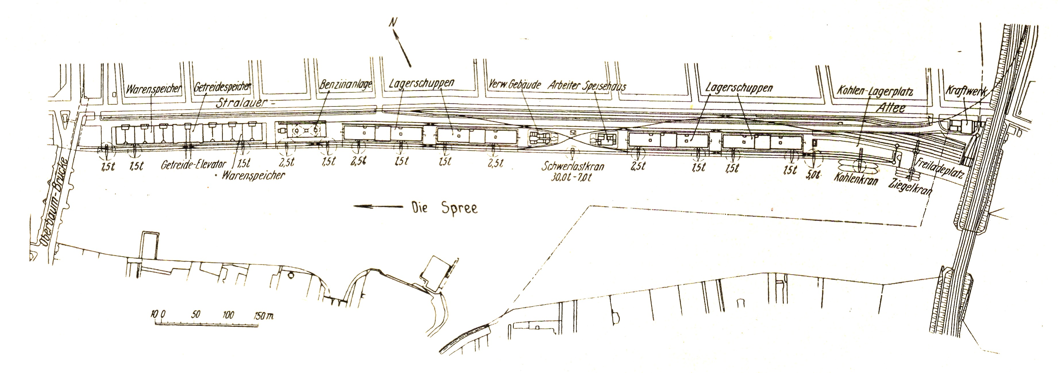 Berlin - Osthafen, situation plan by Friedrich Krause in 1913